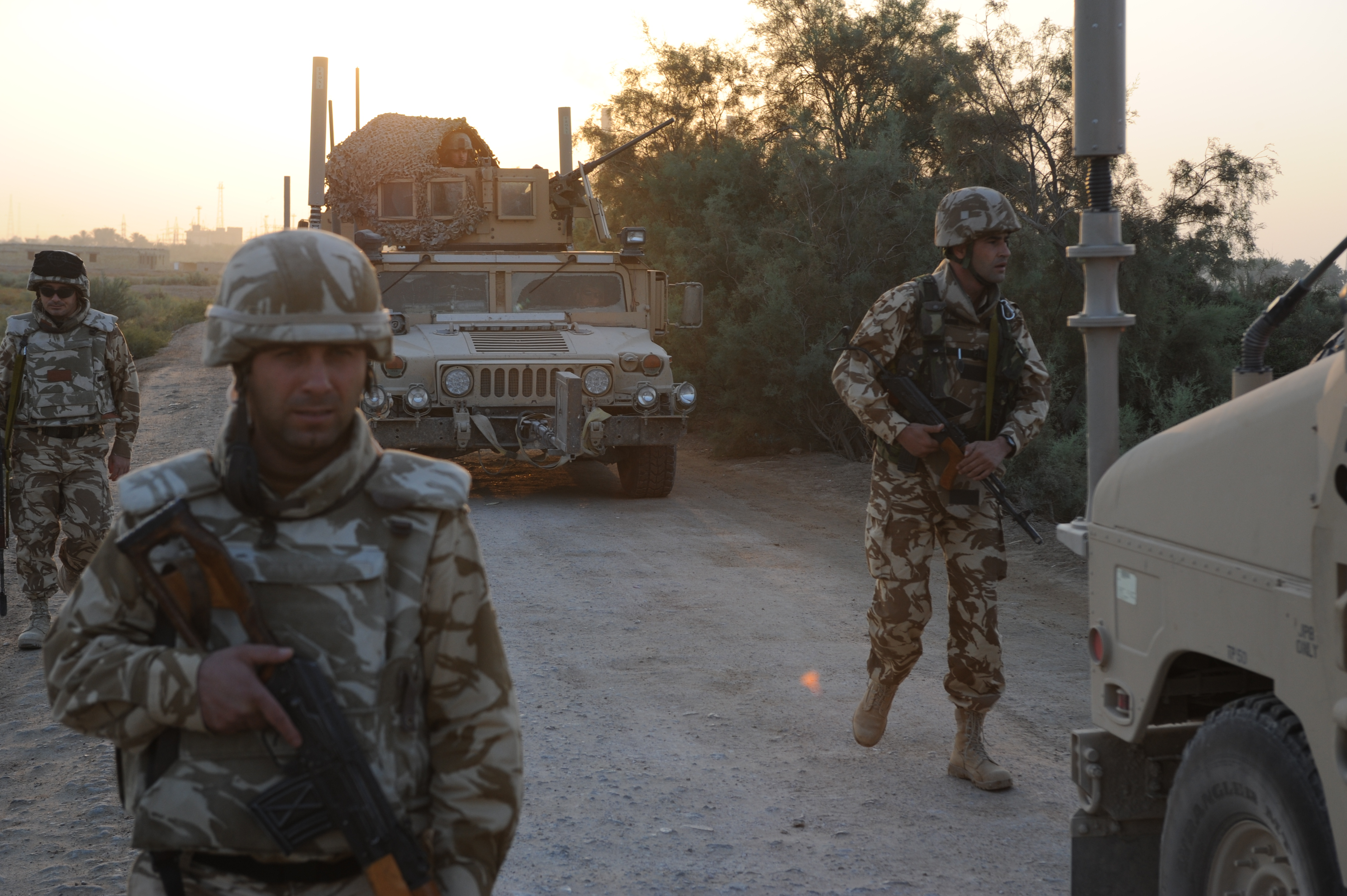 Members of the Romanian Army 341st Infantry Battalion, also known as the White Shark Battalion, patrol a village outside the city of Nasariyah, Iraq, Oct. 14, 2008, in support of Operation Iraqi Freedom. (U.S. Army photo by Staff Sgt. Brendan Stephens/Released)